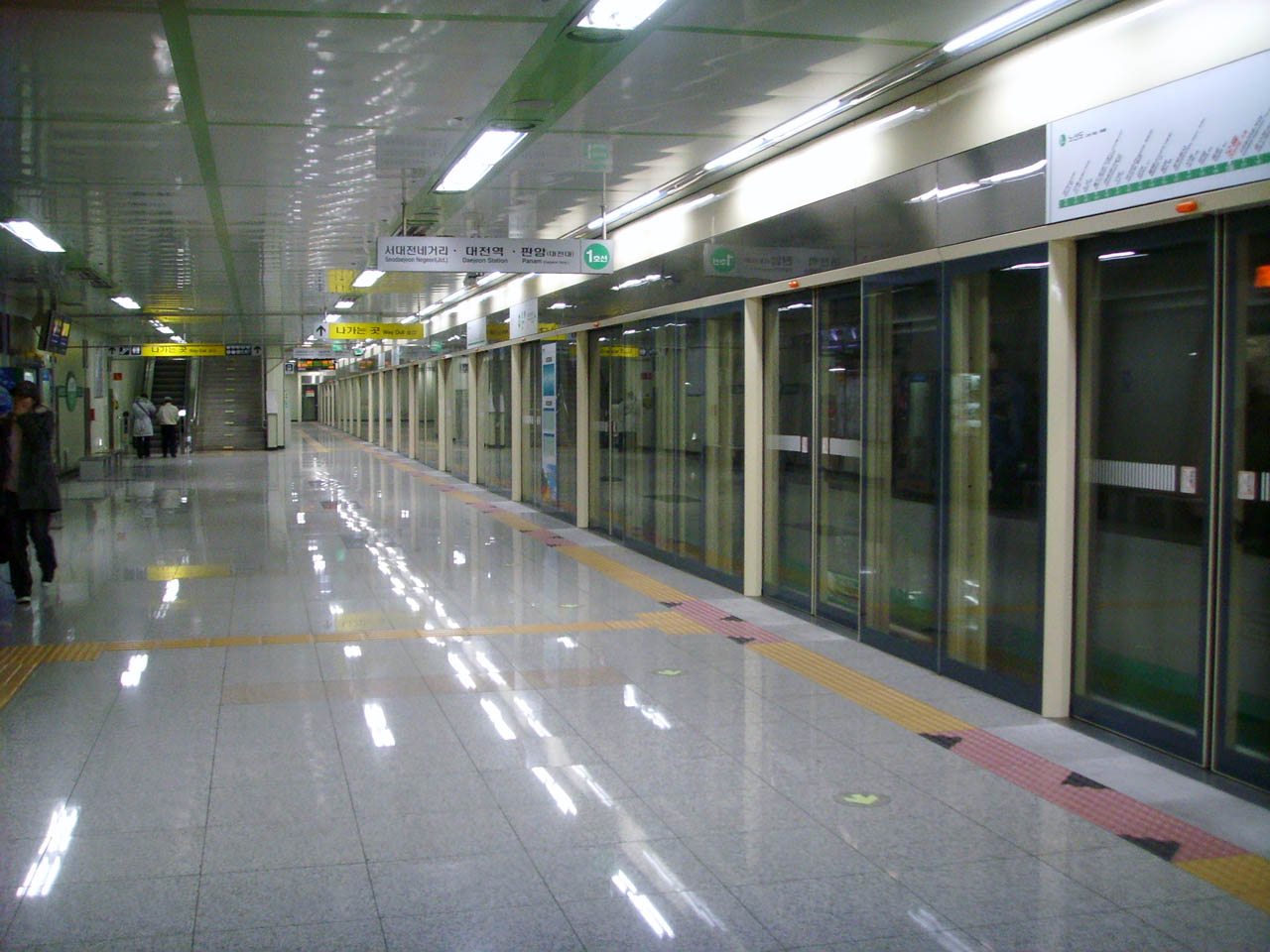 Daejeon Subway Line 1 Oryong Station